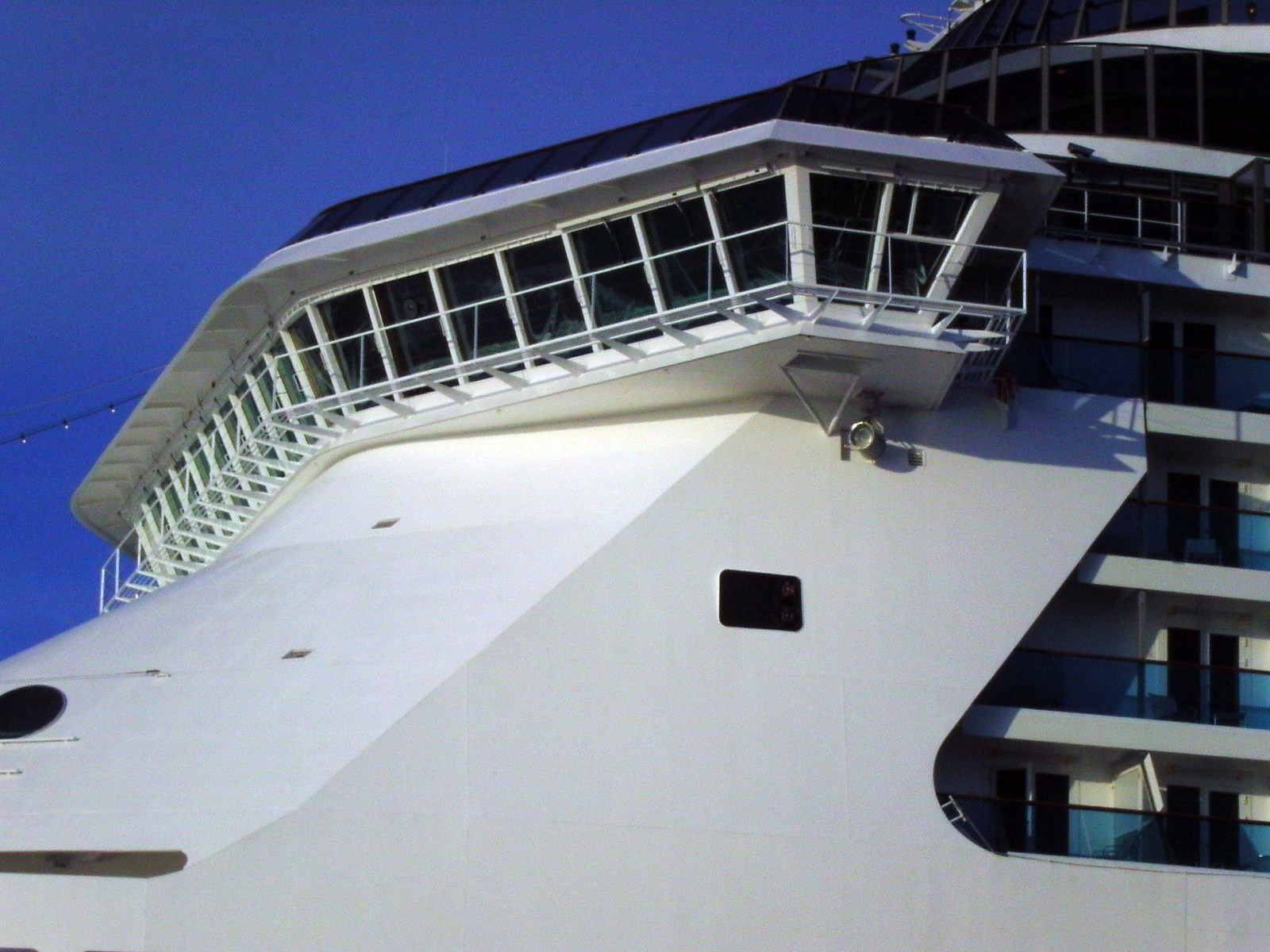 Bridge of the cruise ship Costa Atlantica